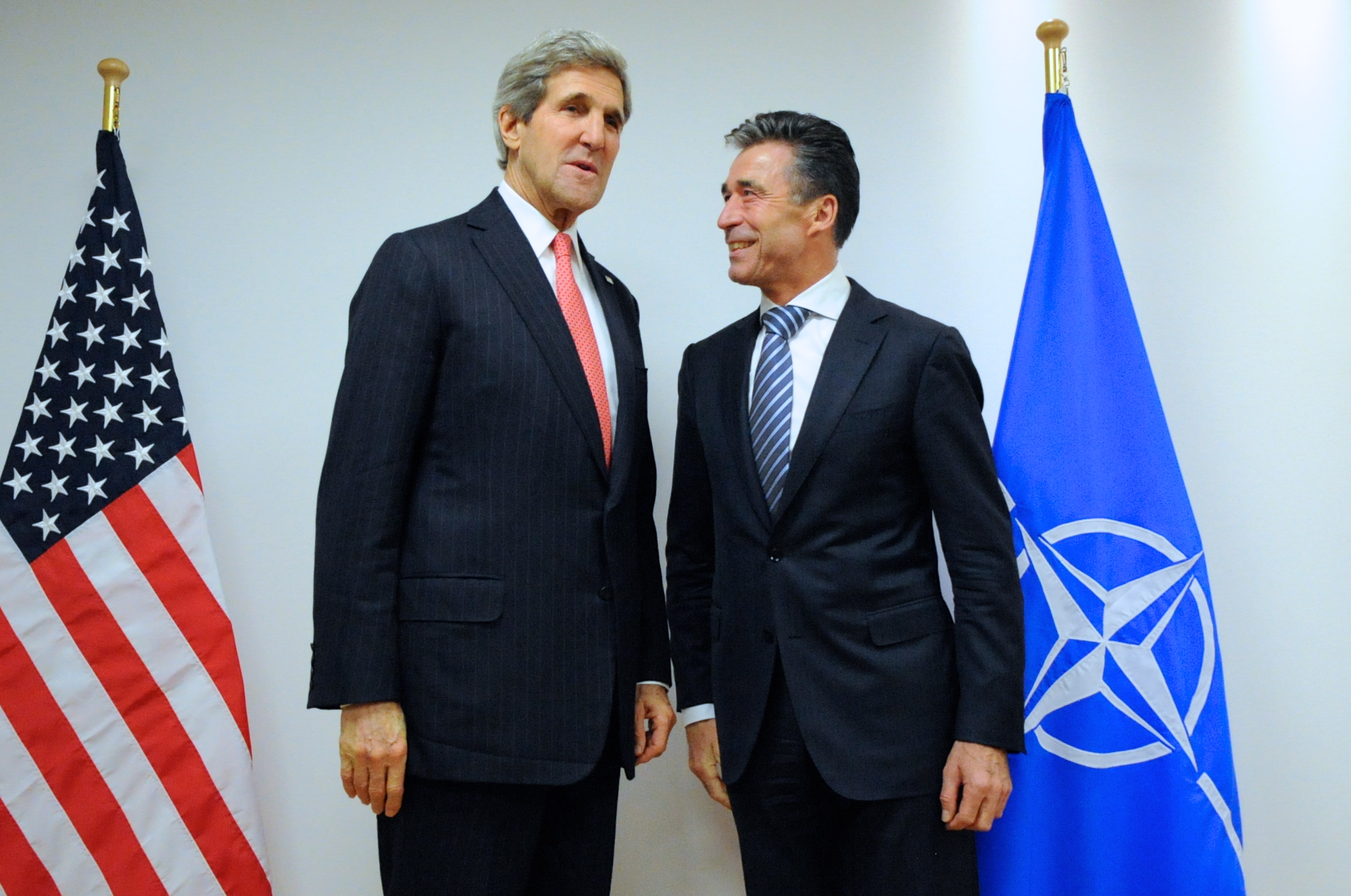 U.S. Secretary of State John Kerry chats with NATO Secretary General Anders Fogh Rasmussen before the start of a bilateral discussion preceding a NATO Ministerial meeting in Brussels, Belgium, on December 3, 2013. [State Department photo/ Public Domain]